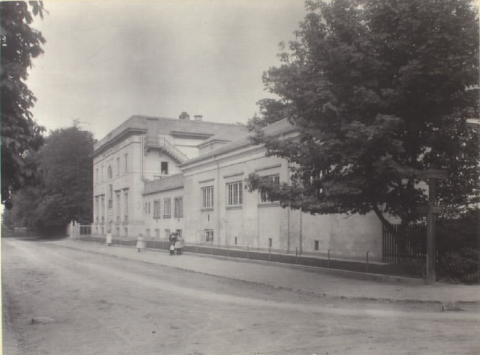 The Finsen Institute, founded by Niels Ryberg Finsen i 1896.